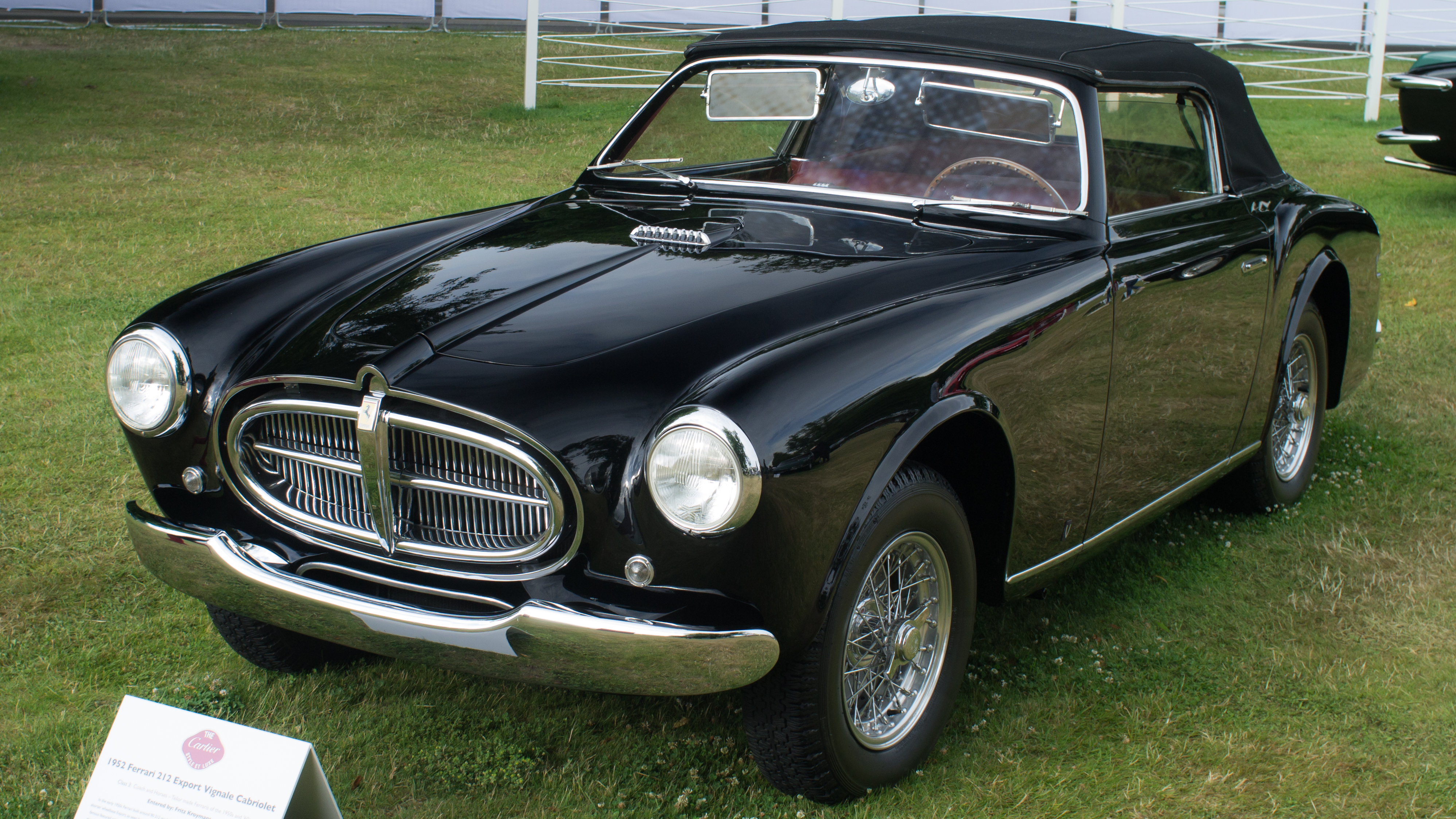 1952 Ferrari 212 Export Cabriolet Vignale at the Goodwood Festival of Speed 2015. This is serial number #0255EU.[1]